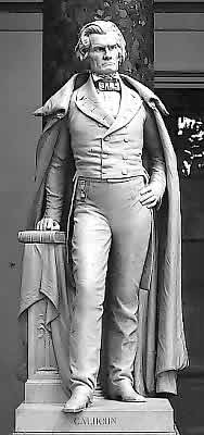 John Caldwell Calhoun Given by South Carolina to the National Statuary Hall Collection.